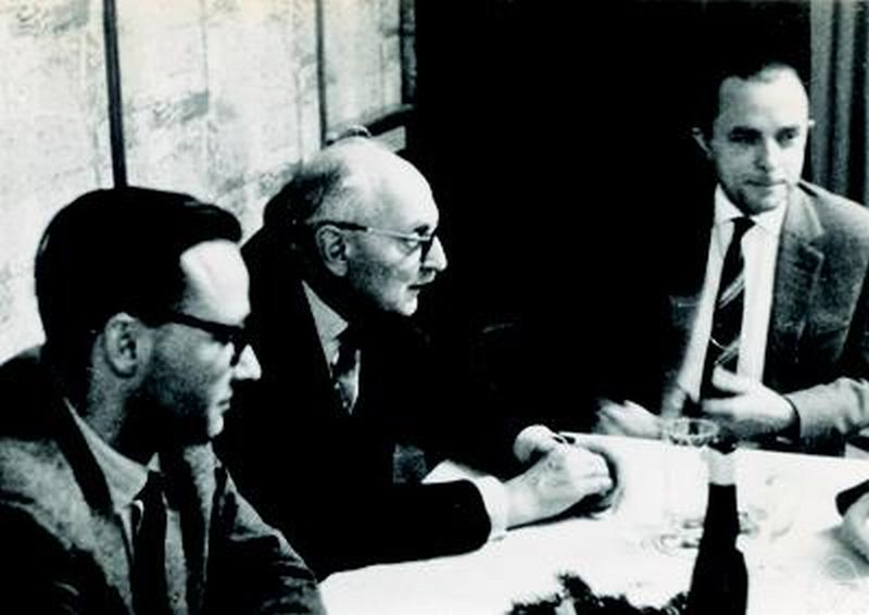 From left: Bertram Huppert, Josef Ehrenfried Hofmann, Günter Pickert 1961